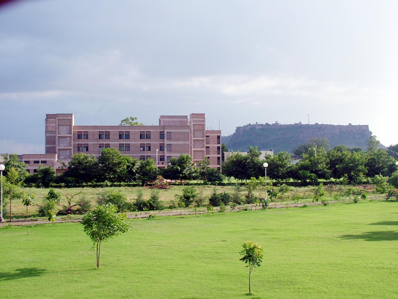 Girl's Hostel, Gwalior Fort at sight, Indian Institute of Information Technology and Management